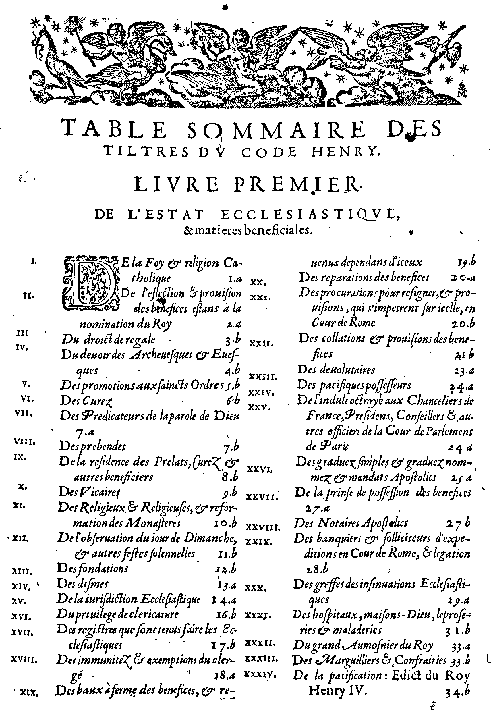 First page of the table of contents of Le Code du Roy Henri III Roy de France et de Pologne (1587), by Barnabé Brisson.